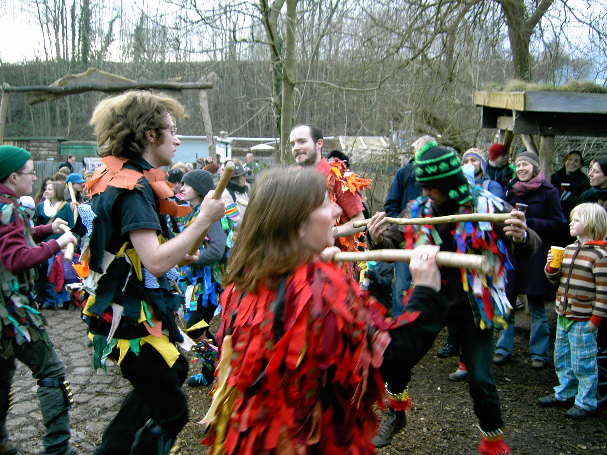 Morris dance at a wassail at Boiling Wells, St Werburghs, Bristol.